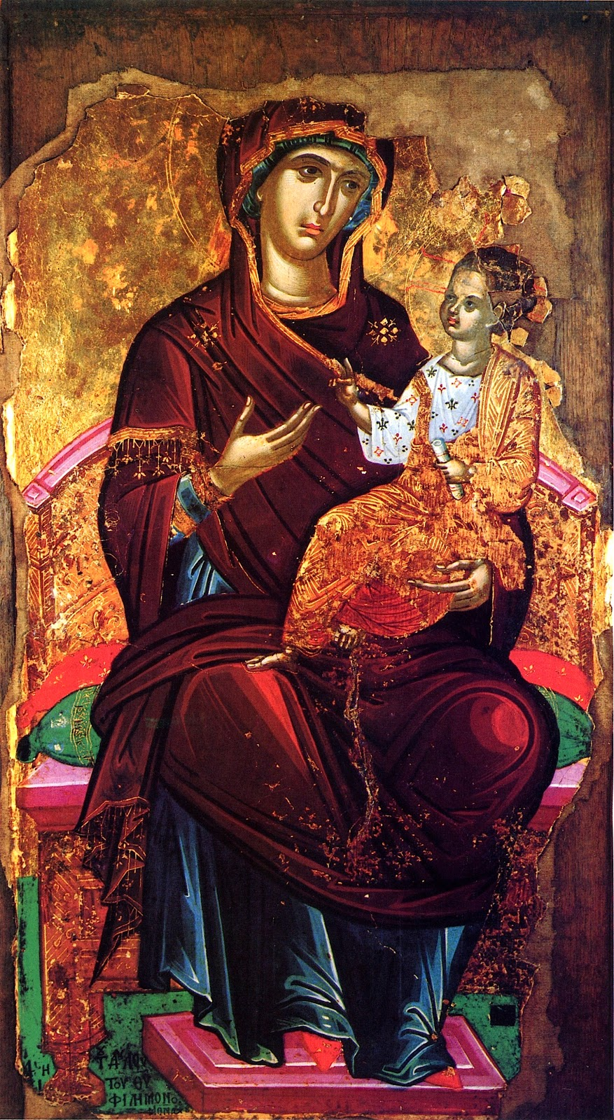 Gregoriou Monastery Saint Mary Enthroned Fresco, 16th Century, Cretan School